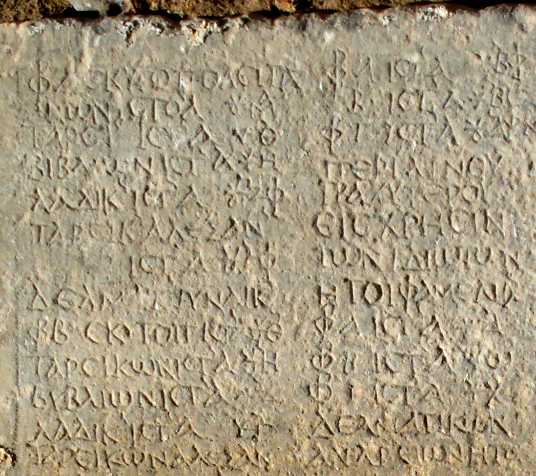 Diocletian's prices edict, one of 4 remaining fragments embedded in the medieval church of St. John Chrysostomos in Geraki, Greece. This close up shows the start of the text in the top lintel, the original text is in three columns.